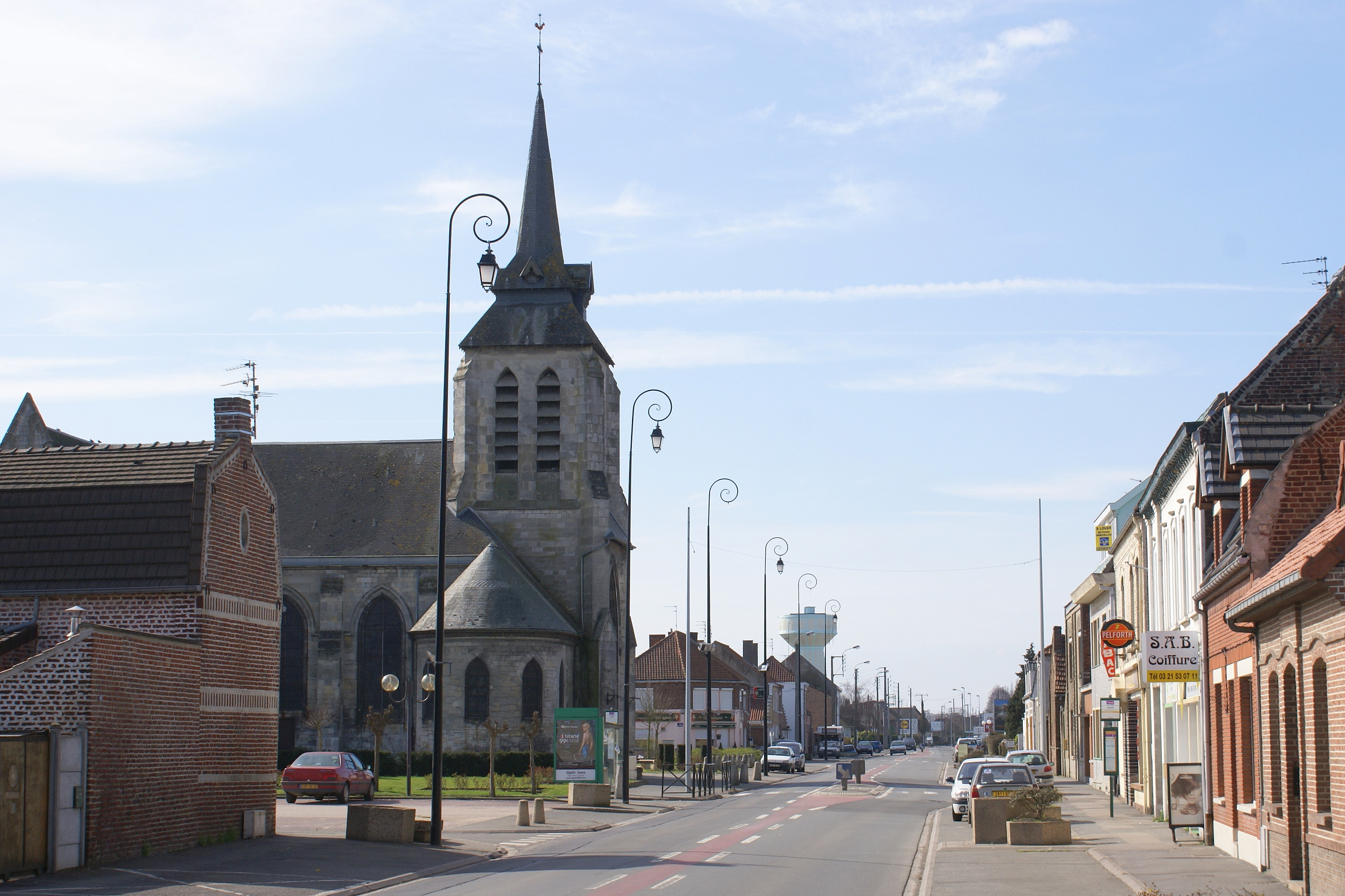 Main street of Essars, which happens to be also the road D 171 between Béthune and Armentières